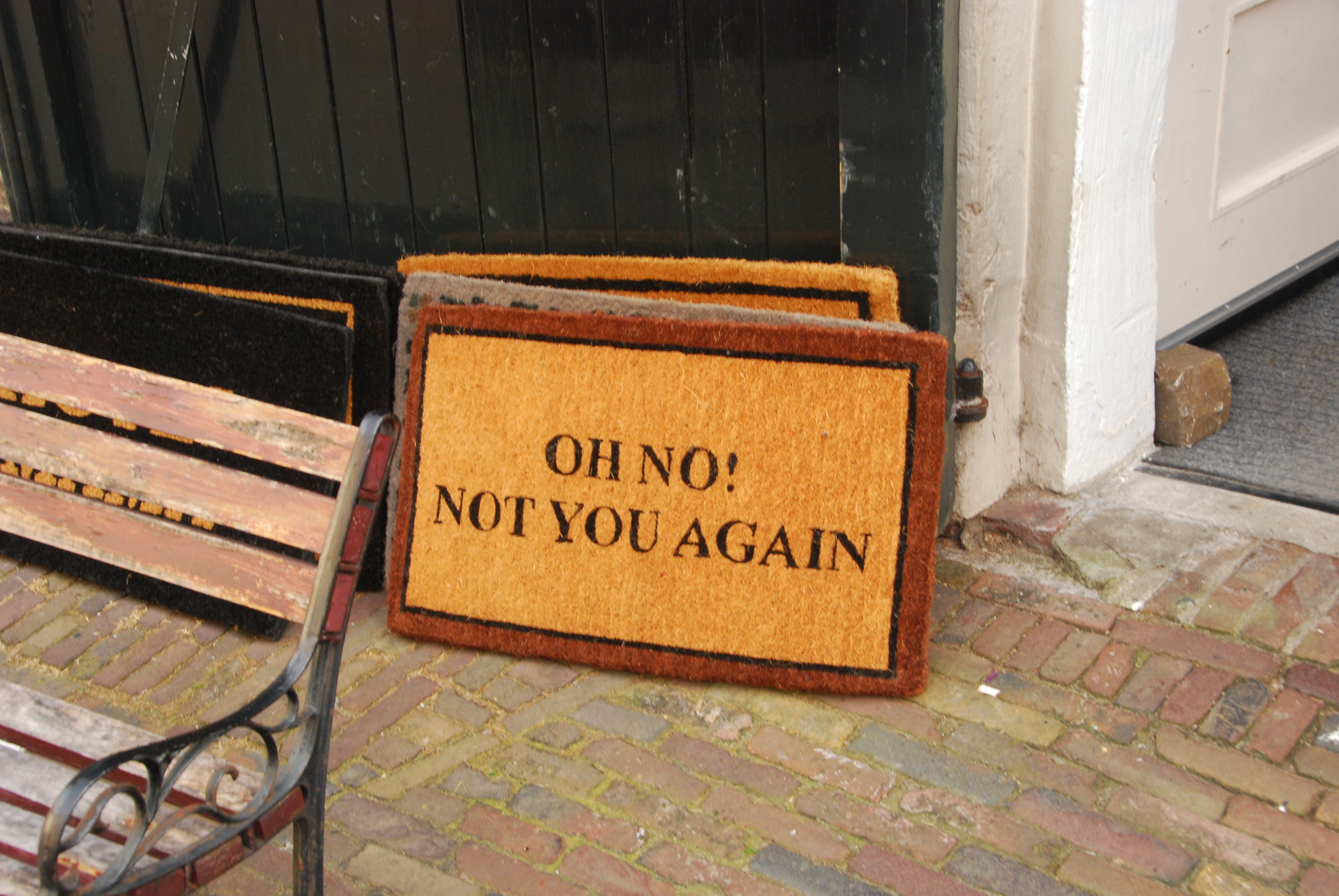 A not very welcome message on a doormat